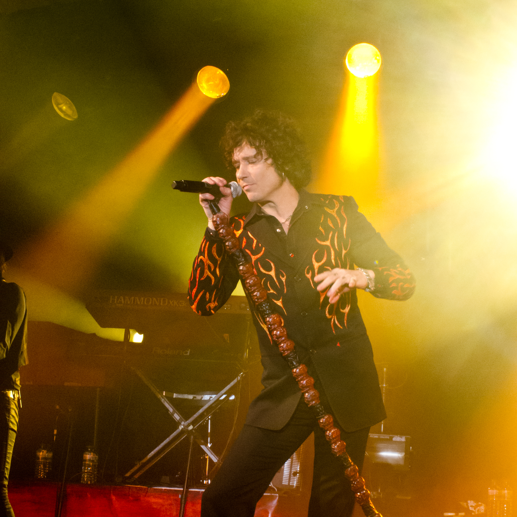 Enrique Bunbury during a concert in 2012.